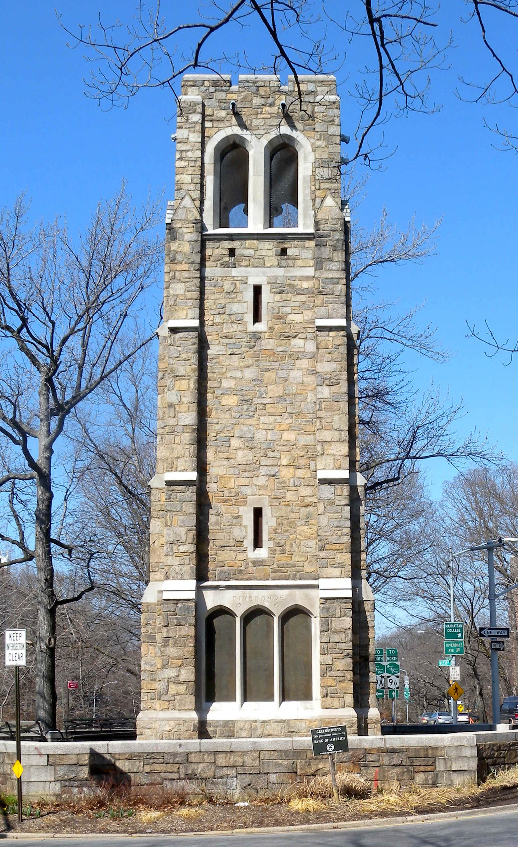 Looking north at Riverdale Bell Tower on a sunny midday.